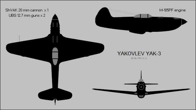 3-view silhouettes of the Yakovlev Yak-3